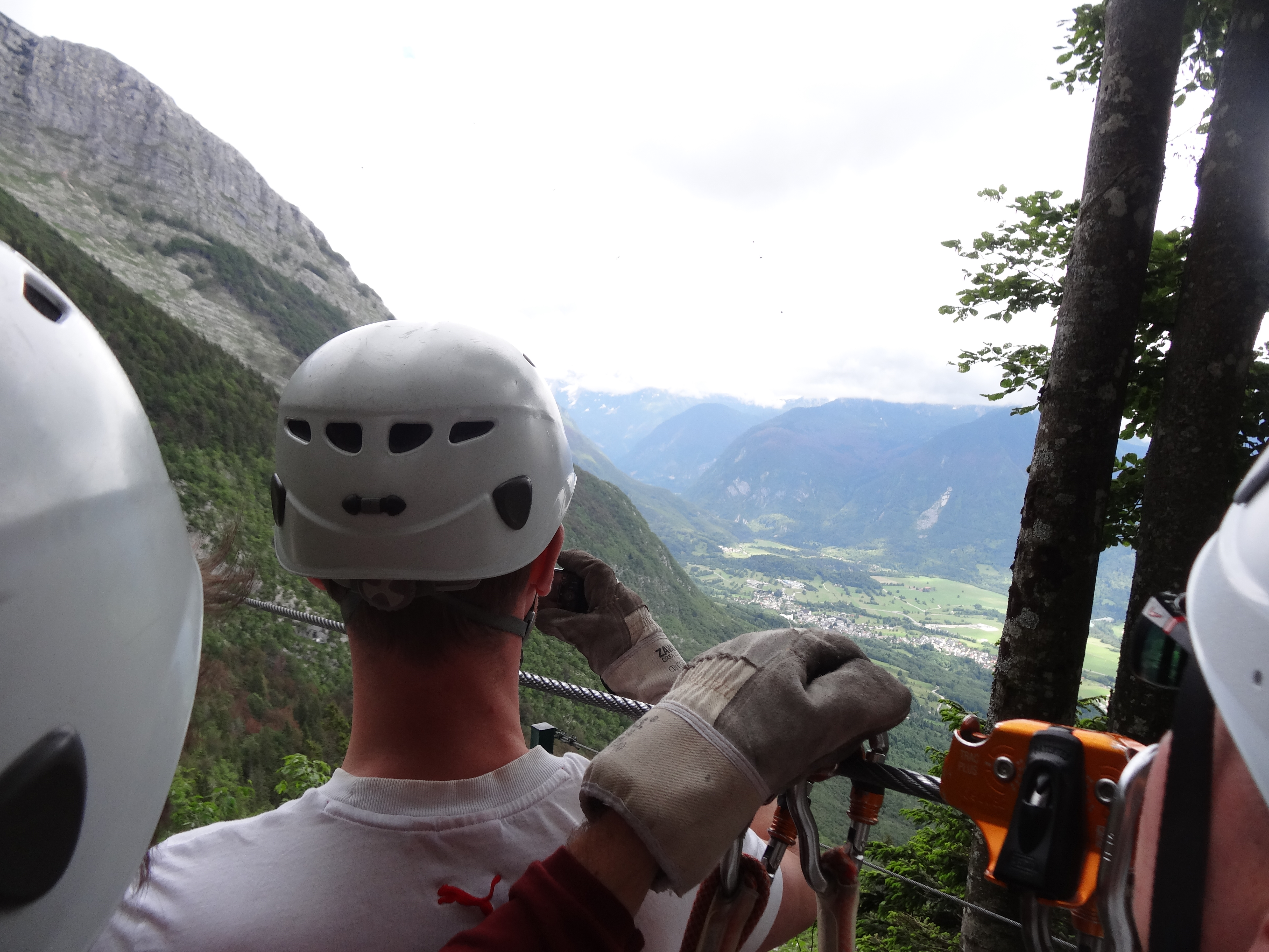 Zip line Bovec, Slovenia